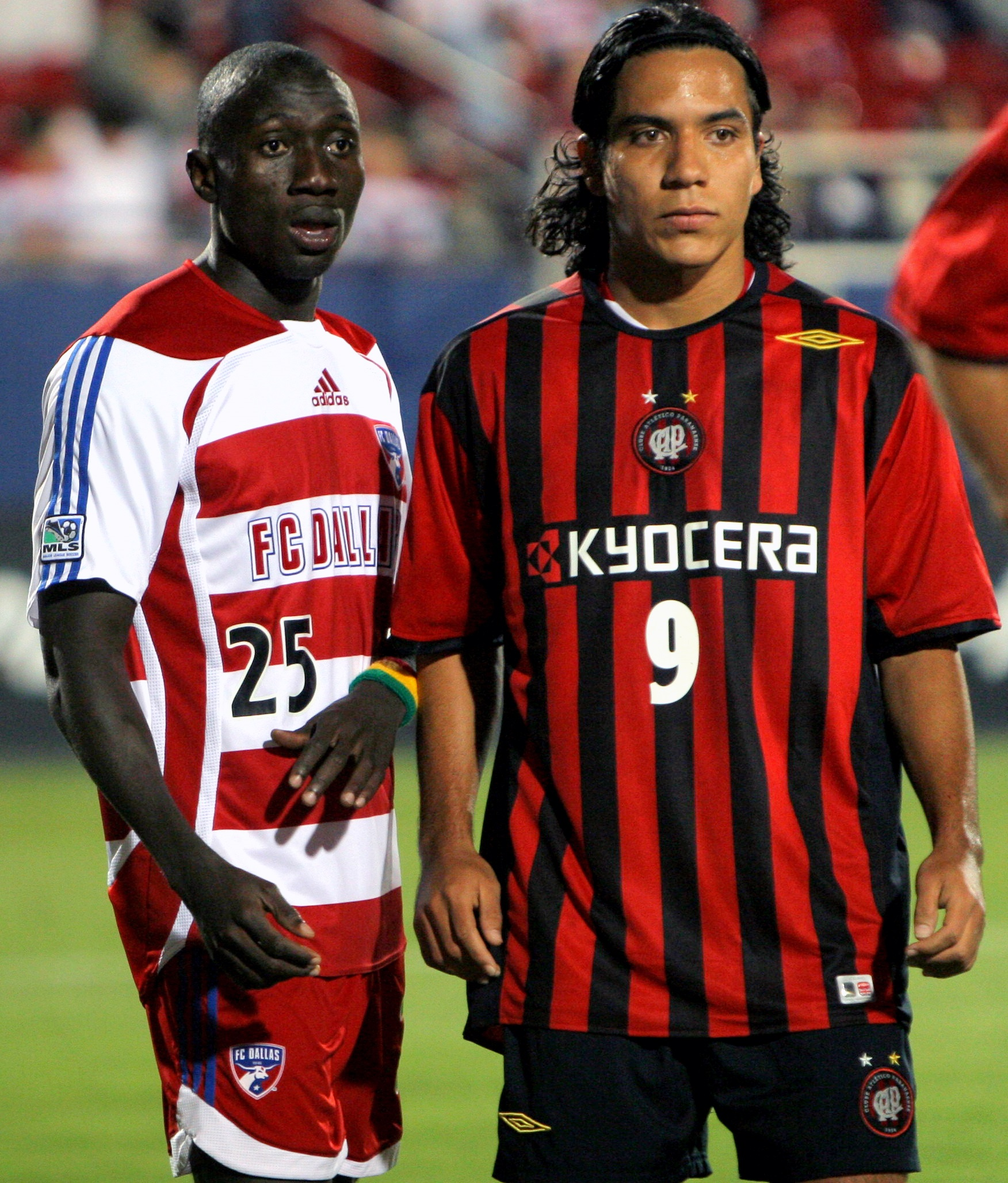 Dominic Oduro of FC Dallas and Ricardinho of Clube Atletico Paranaense awaiting a corner.